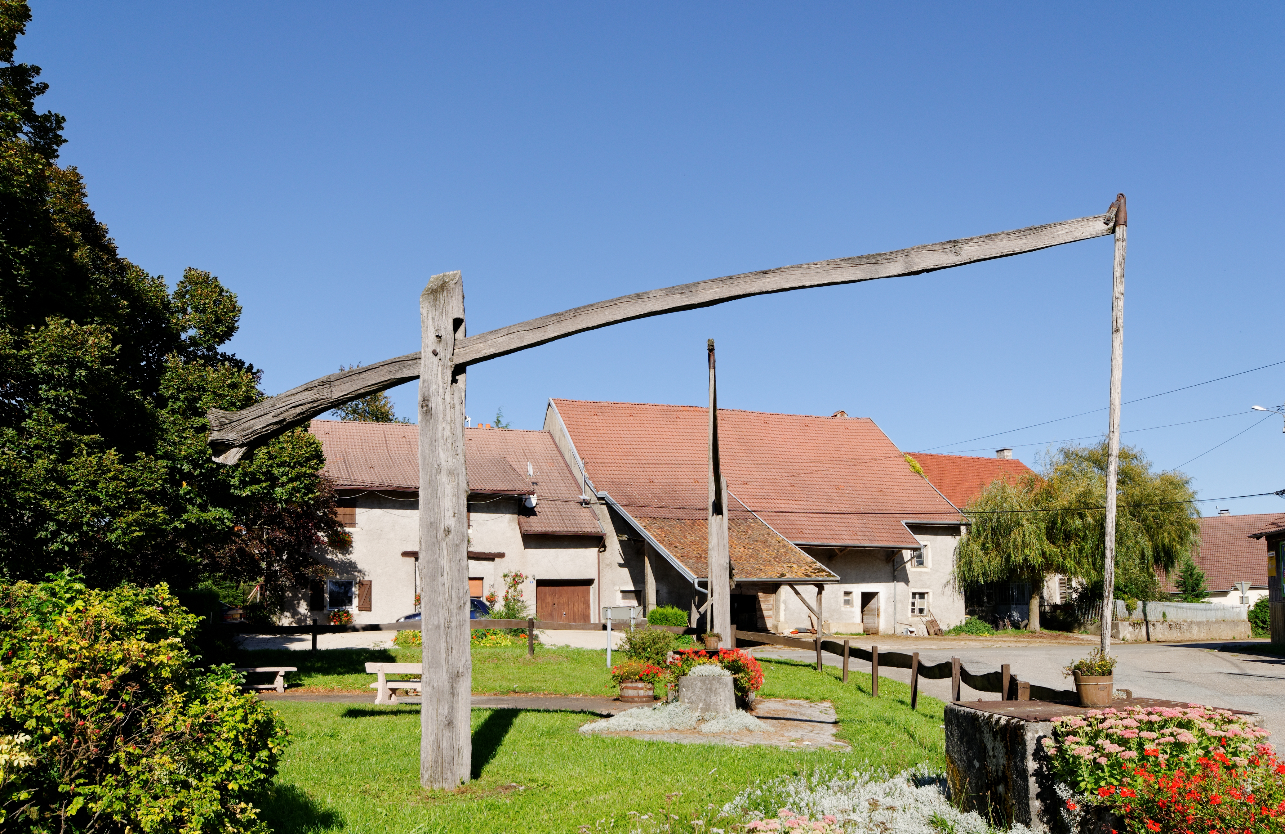 This photograph was taken with a Nikon D300 Puits à balancier, à Croix (monuments inscrits MH n° PA90000008).